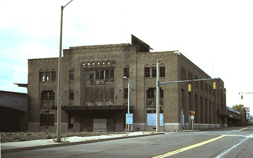 Abandoned Erie Union Station.